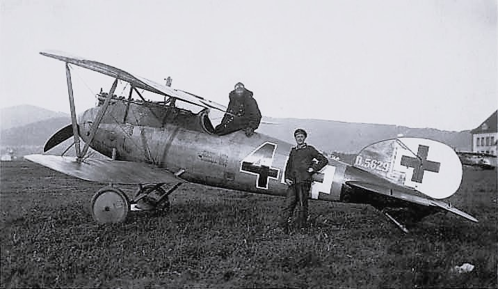 Albatros D.Va (serial D.5629/17).